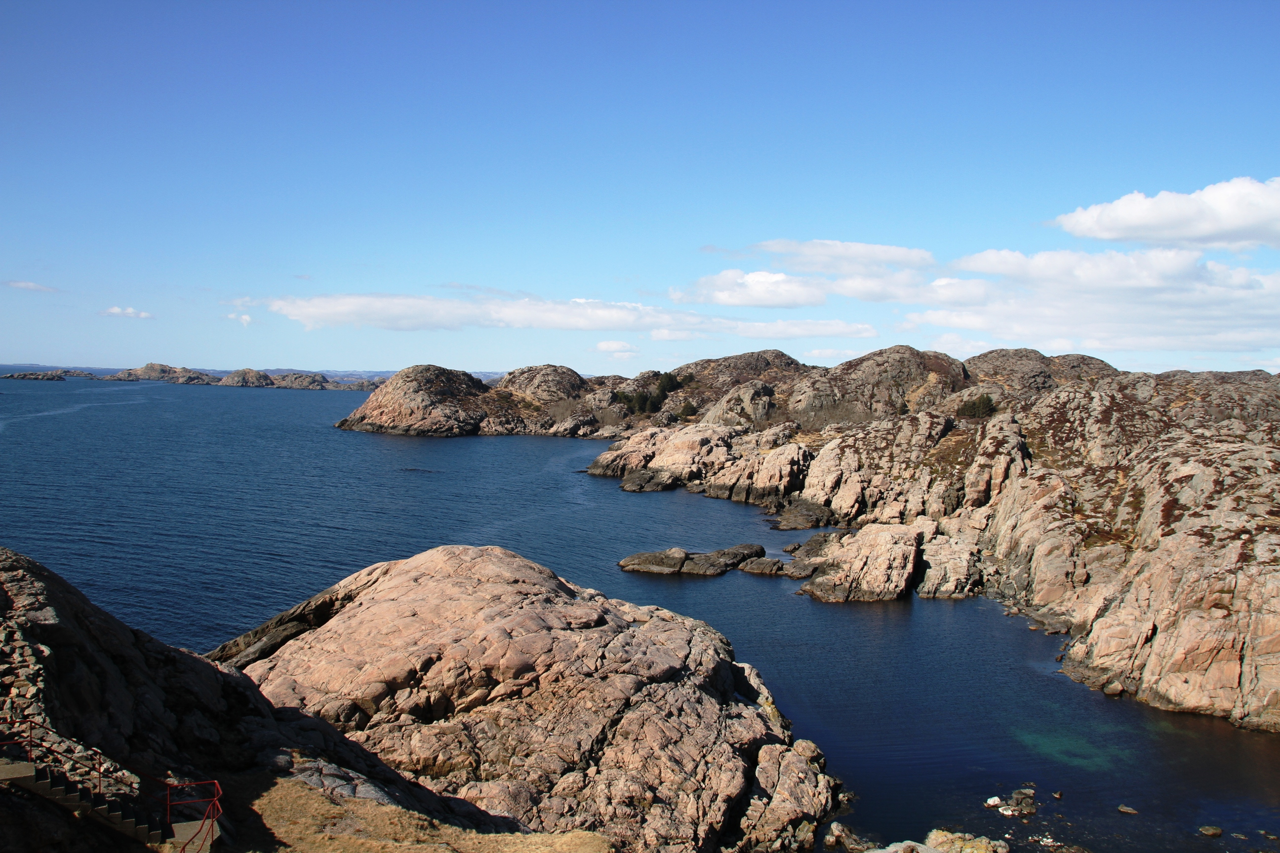 Image from Lindesnes municipality, taken from Lindesnes Lighthouse towards the west - with Grønsfjorden (Green Fjord) stretching northerly into the rocky peninsula, west of the Knarvika Bay.